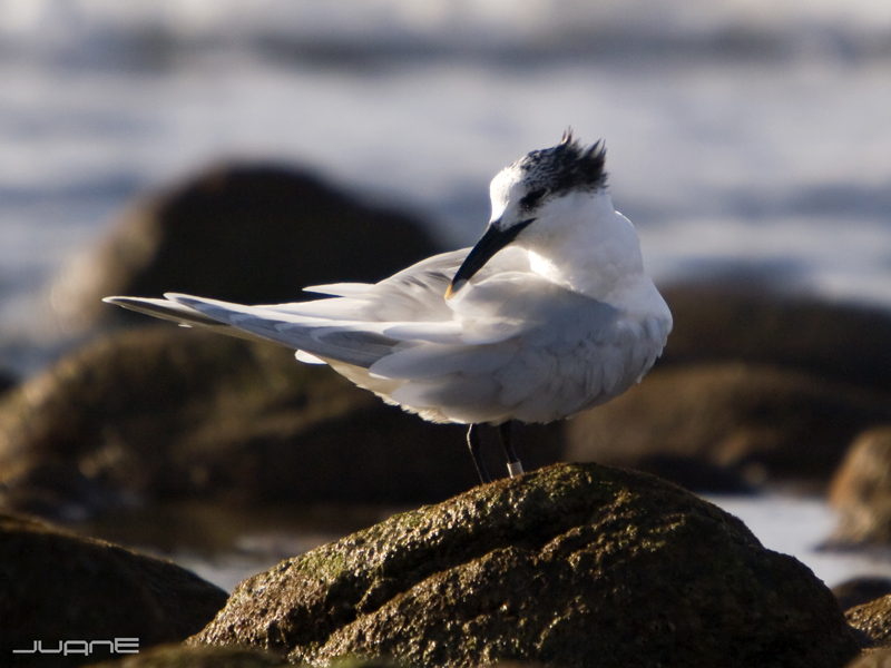 Charrán Patinegro Sterna sandvicensis